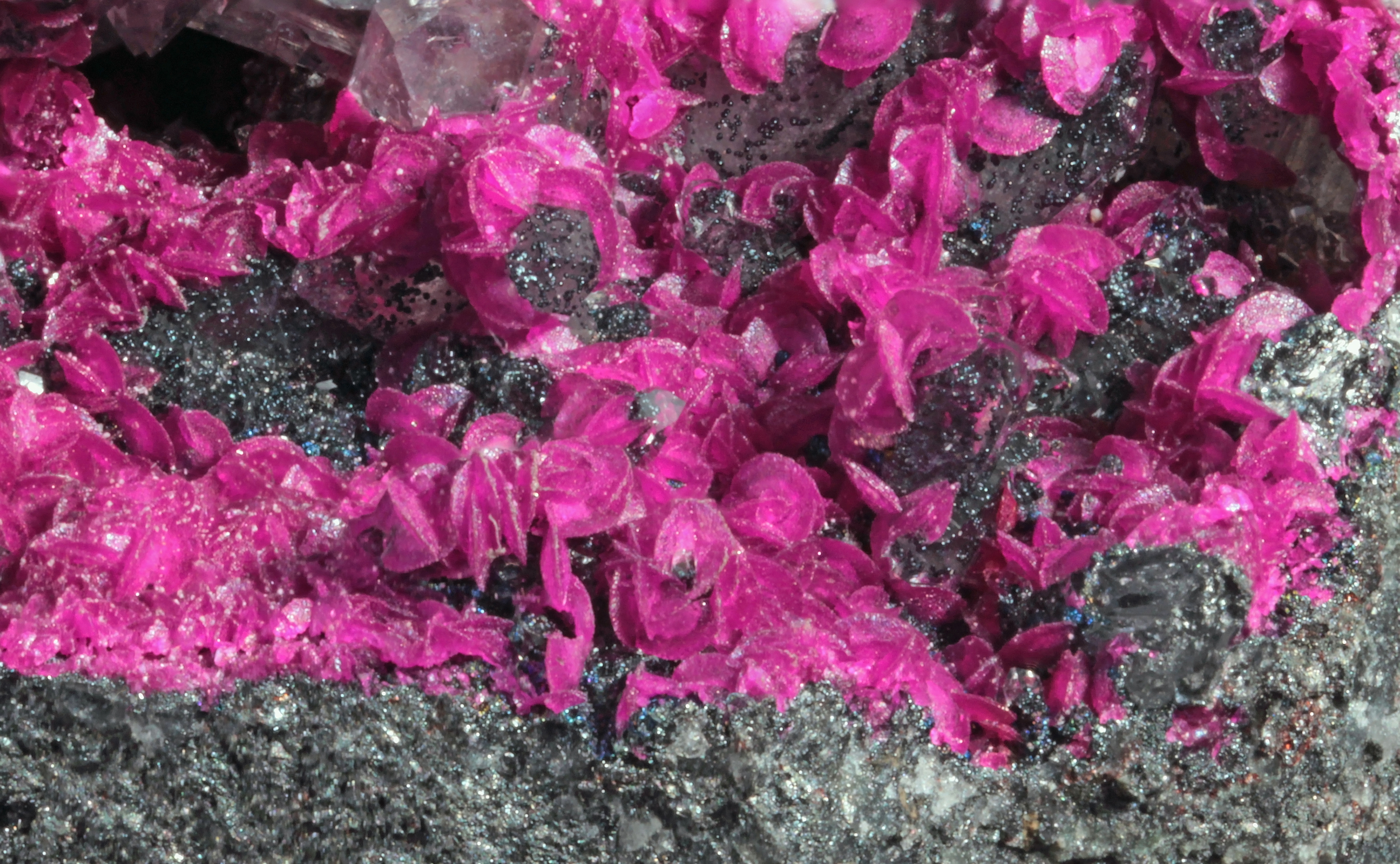 crystals of spherocobaltite (sphaerocobaltite), crystals of quartz : Agoudal Centre Quarry, Agoudal, Bou Azer District (Bou Azzer District), Tazenakht, Ouarzazate Province, Souss-Massa-Draâ Region, Morocco